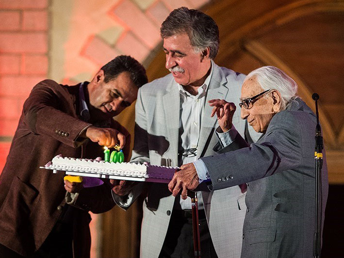 17th Iranian cinema celebration was held in Masoudieh Mansion by Iran's House of Cinema.